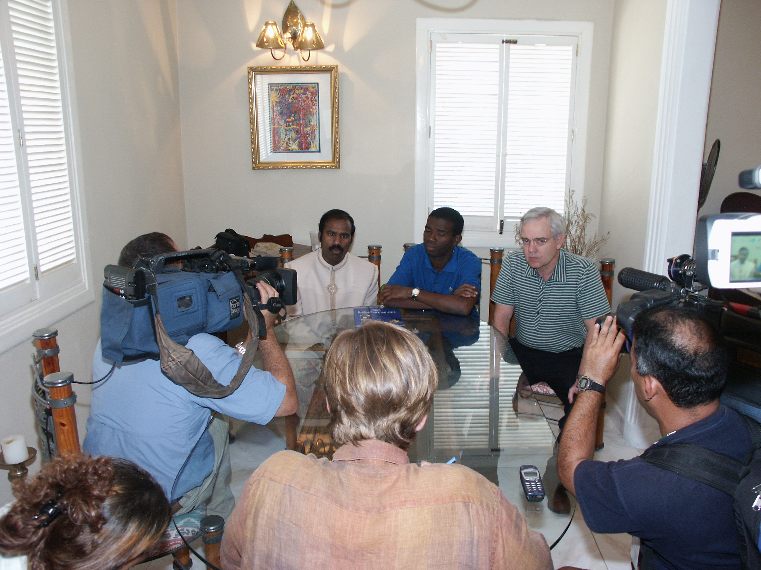 KA Paul with Haitian Militant Leader Guy Phillipe and Fmr US Congressman Bob Clement from Tennessee. Credit to Juda S. Engelmayer